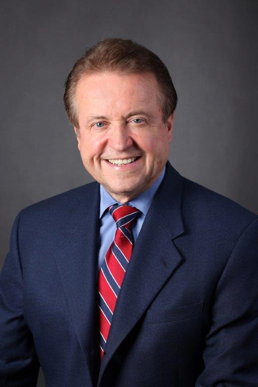 Robert G. Lahita portrait in a suit and red tie